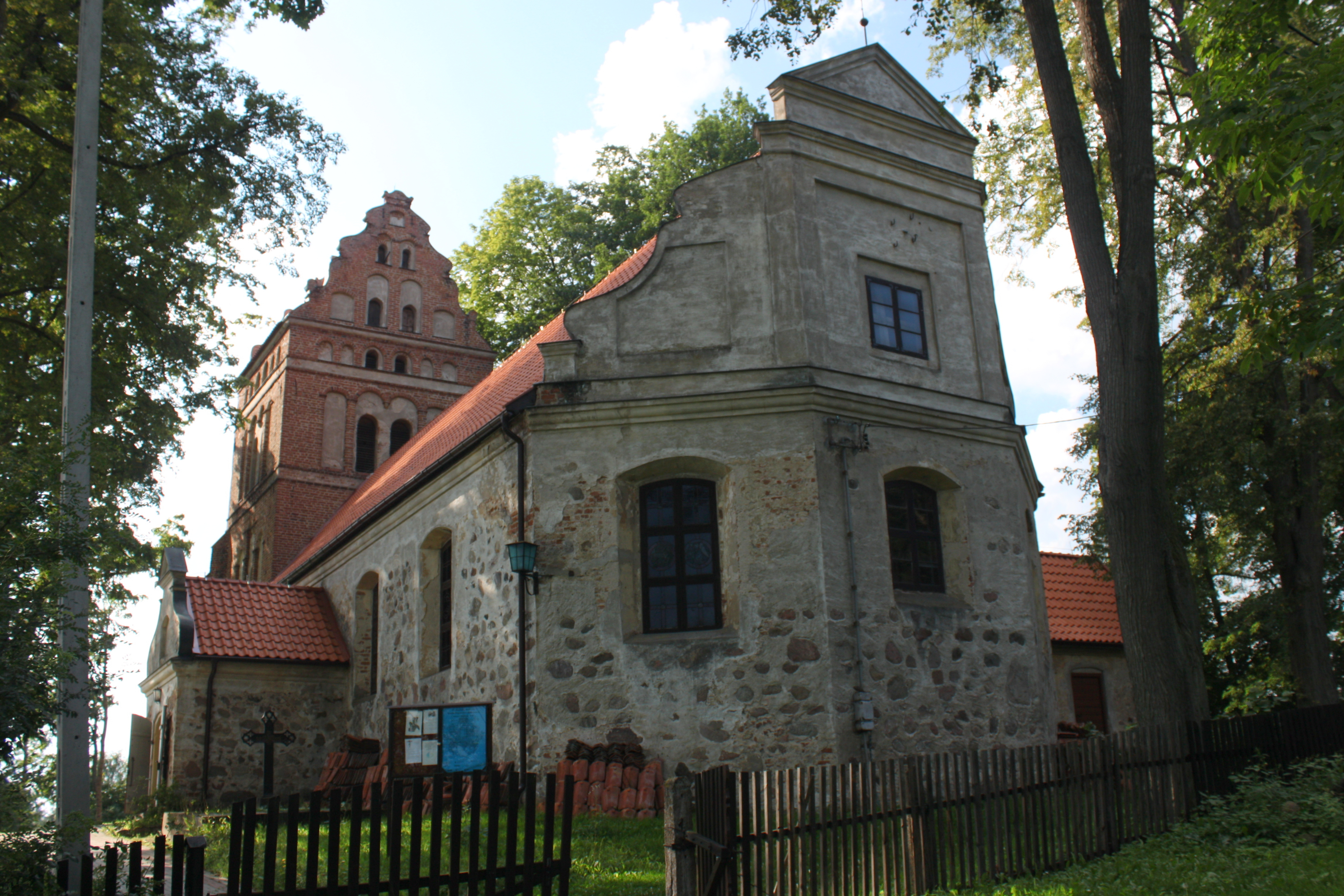 Lutheran church in Dźwierzuty and cemetery nearby.